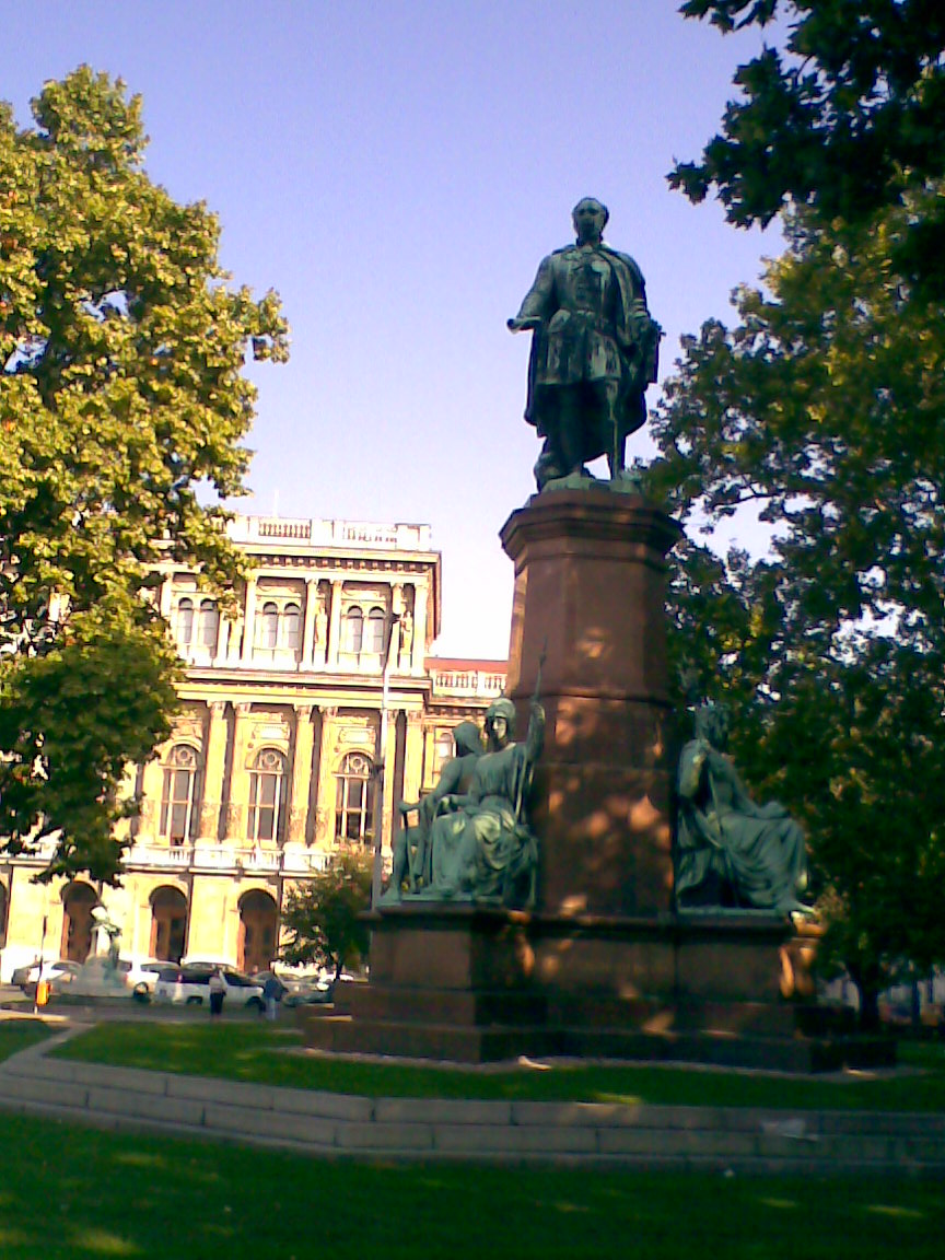 Statue of István Széchenyi in Budapest, made by József Engel (1815-1901). vejarva 23:24, 10 November 2007 (UTC)